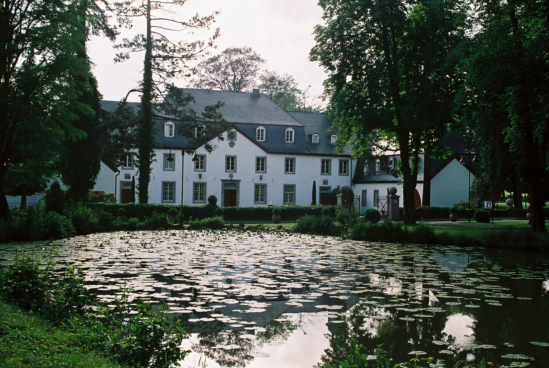 Castle Schloss Auel near Lohmar-Wahlscheid